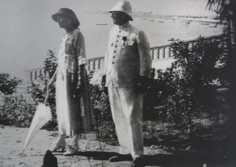 Governor Jules Lauret and his wife in the gardens of Government House overlooking the harbour of Djibouti. Postcard from 1920–1924